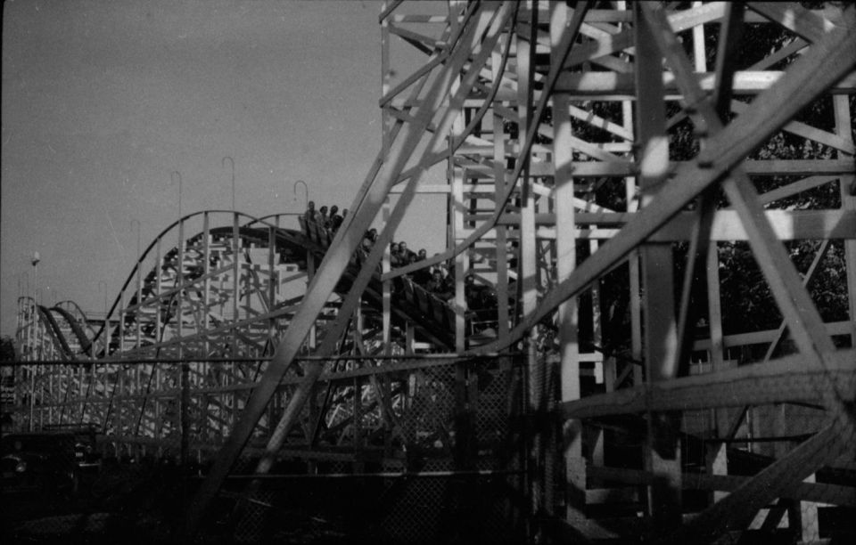 We see part of the roller coaster ride (Le Cyclone) at Belmont Park in Cartierville.